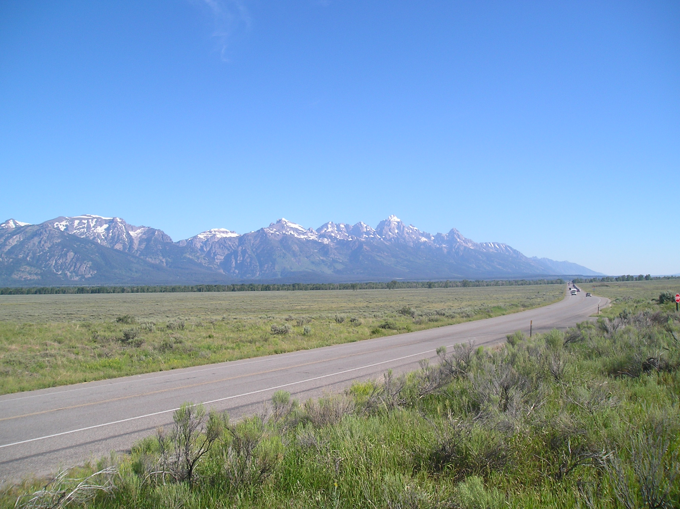 Teton Range, july 2006